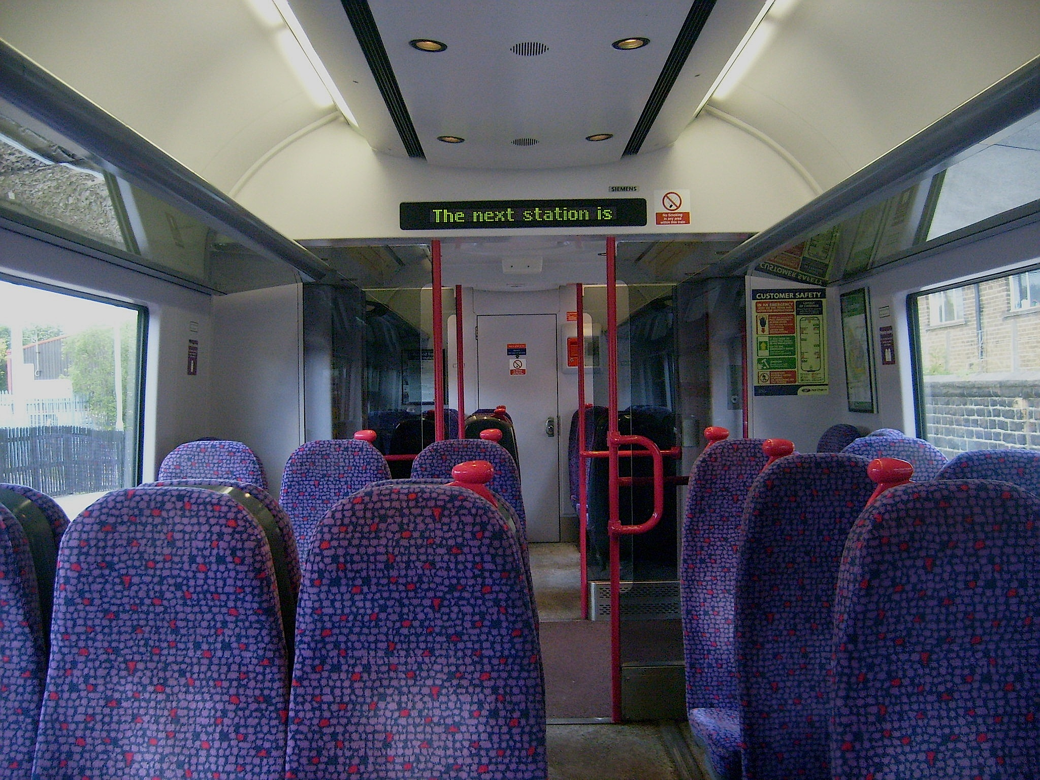 The interior of the Standard Class only Class 333 aboard a DMSO vehicle.